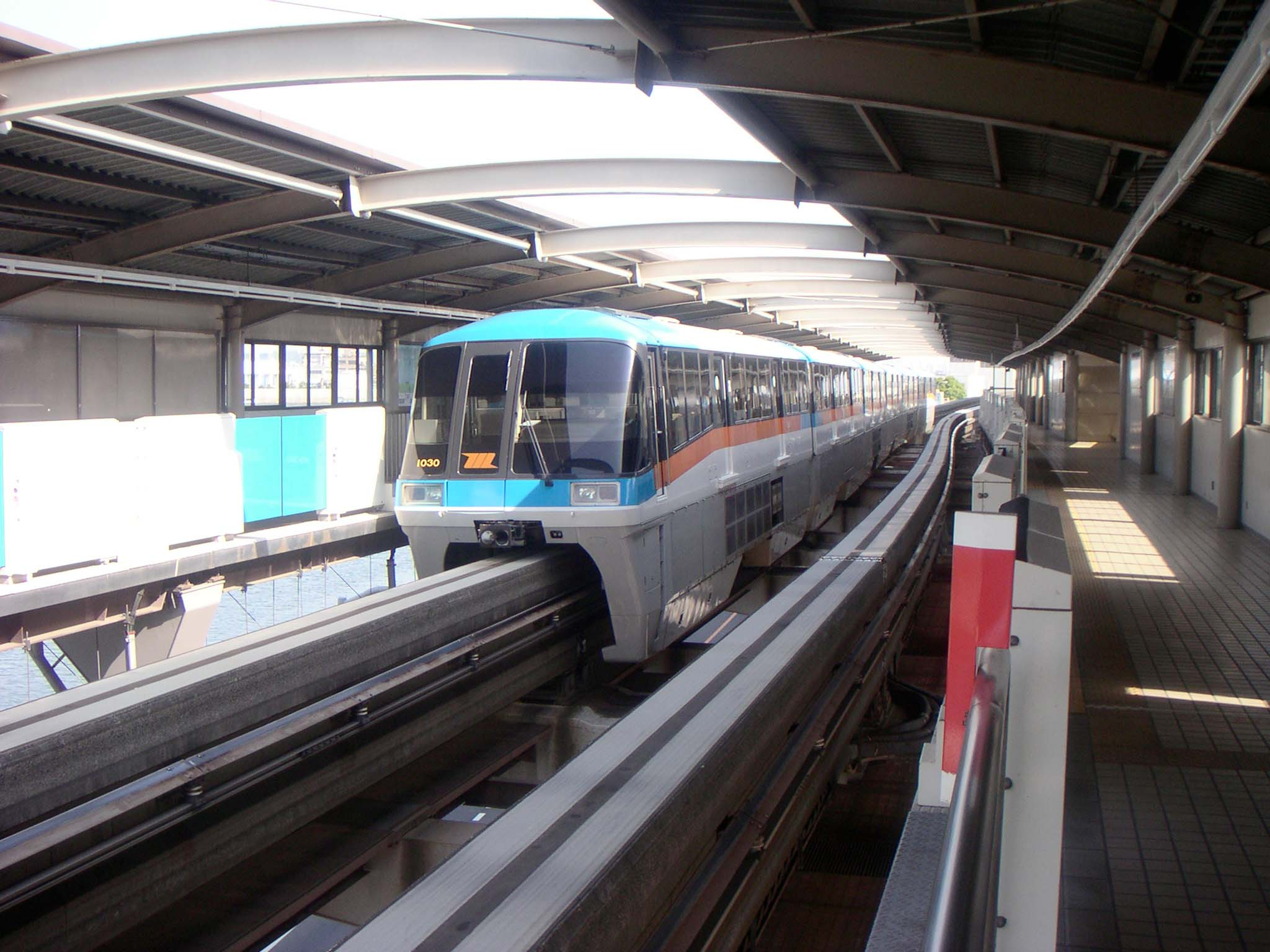 Seibijo Station, Station of Tokyo Monorail.